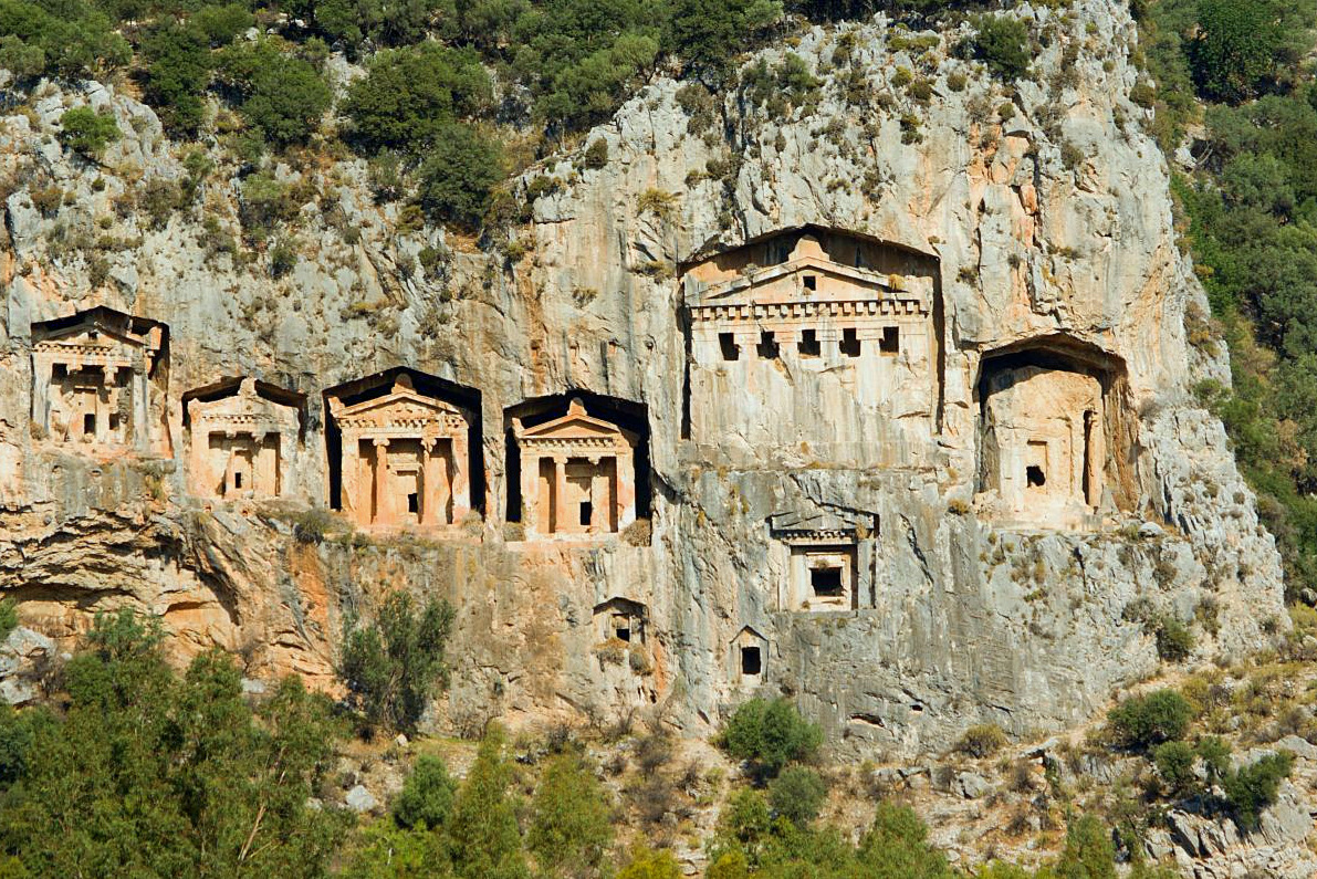 Dalyan, Turkey.